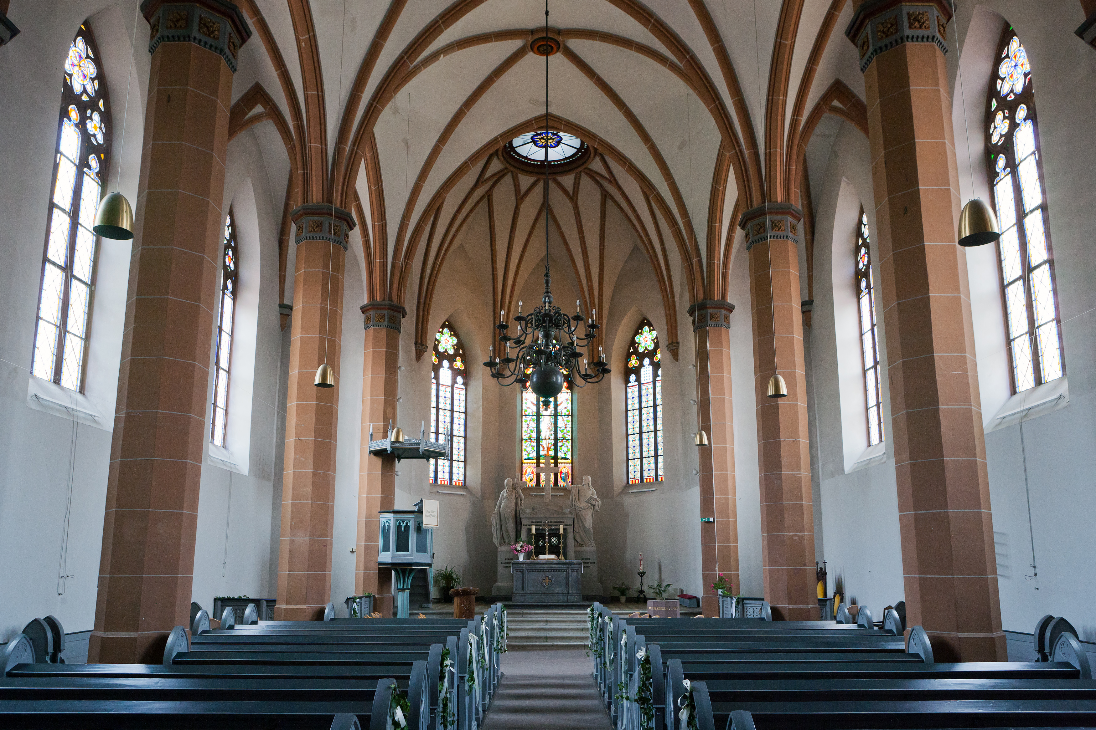 Eltville-Erbach: Johanneskirche (St. John's Church), interior as seen from the south